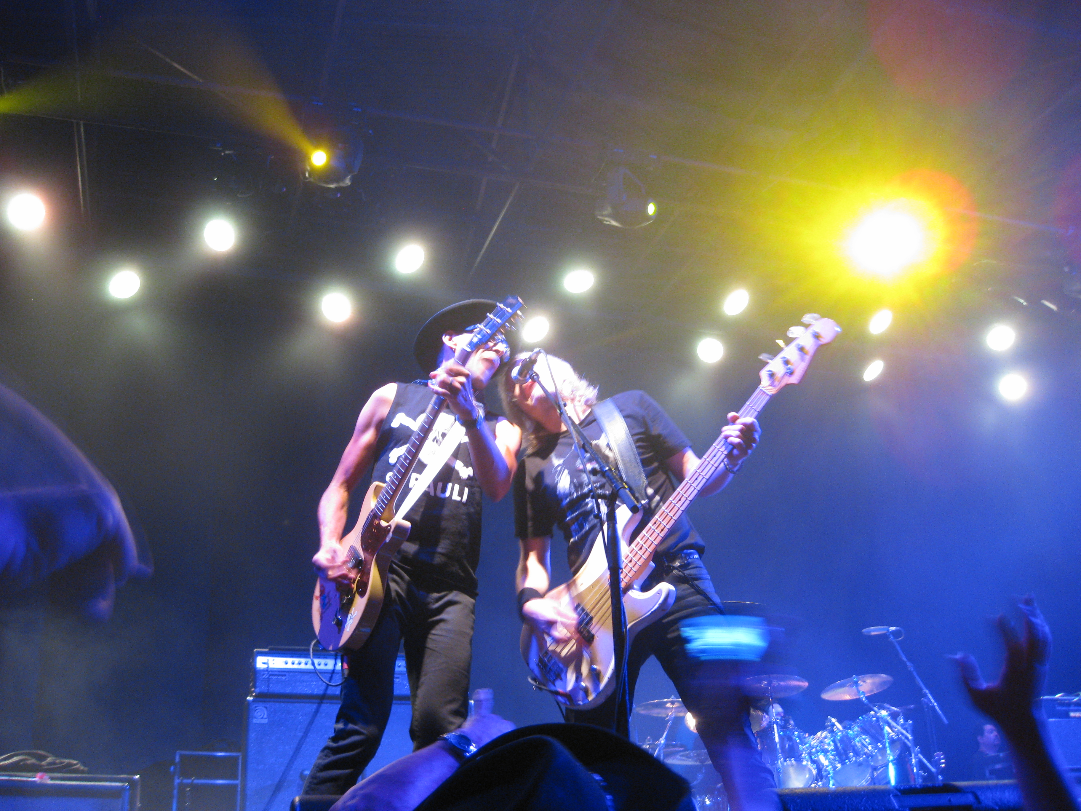 Guitarist Mike Dimkich (left) and bassist Chris Wyse (right) of The Cult performing May 25, 2012 at Humphreys Concerts by the Bay in San Diego, California.